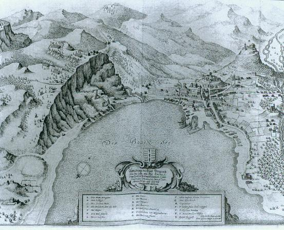 Topography Bregenz, from left to right: Bregenzer Klause, Oberstadt, Ölrain, Gebhartsberg. The illustration shows the storming of the city by the Sweden under Carl Gustav Wrangel, 1646, illustration in Matthäus Merian's Theatrum europaeum.